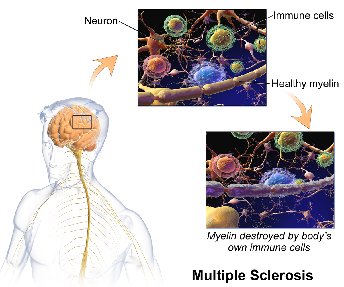 Multiple Sclerosis. See a full animation of this medical topic.